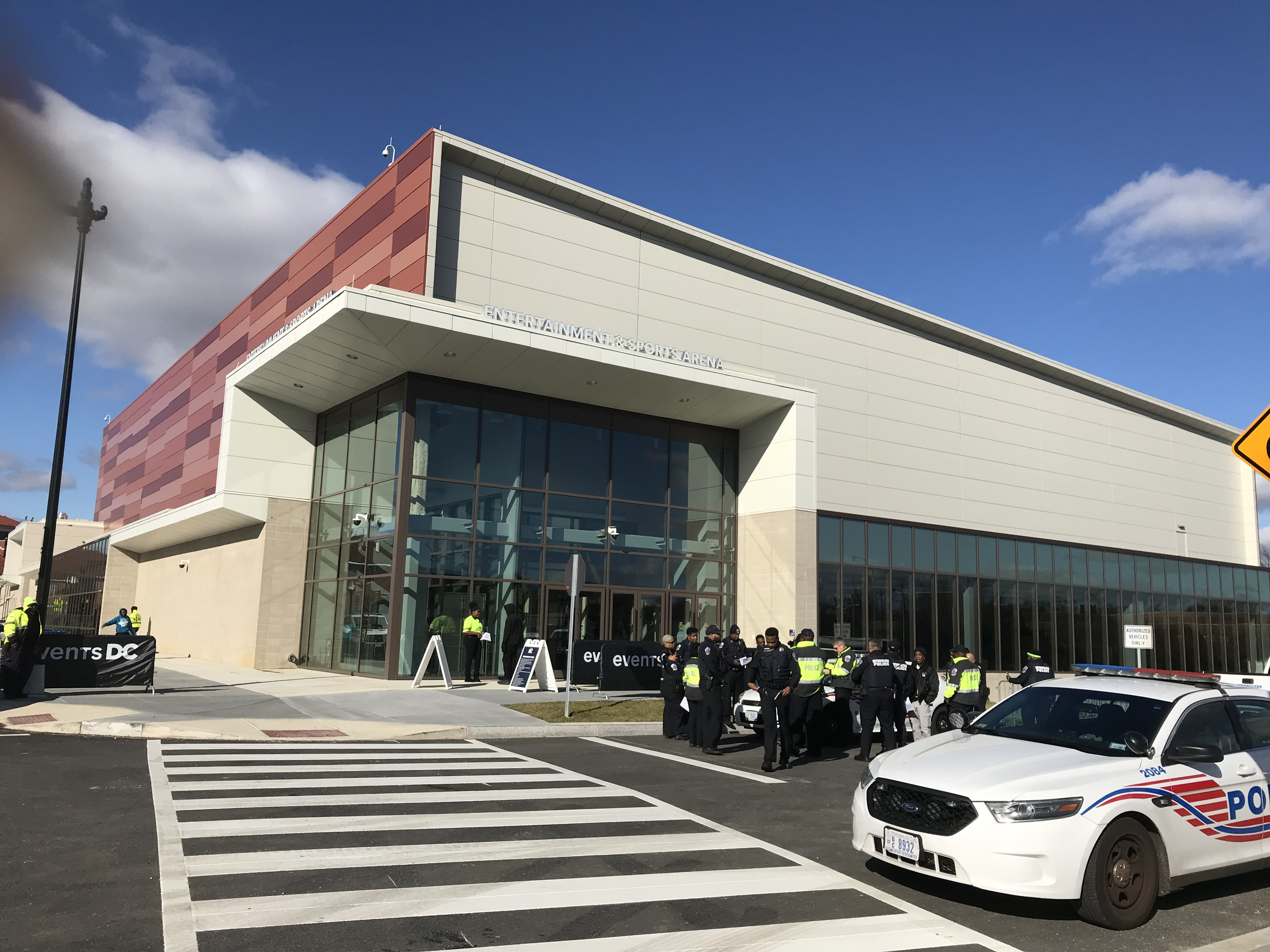 The exterior of the Entertainment and Sports Arena in Washington, D.C.